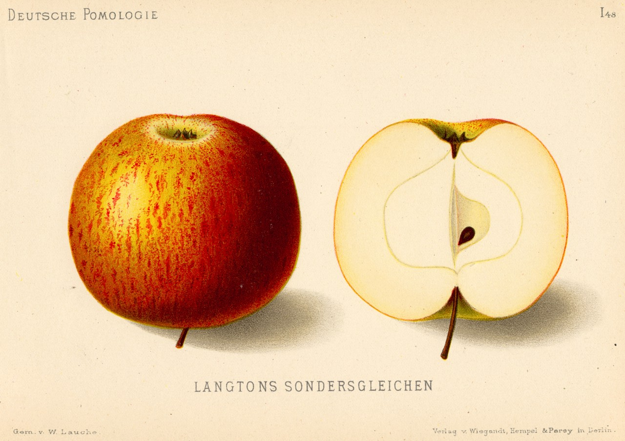 Illustration 48 from Deutsche Pomologie - Aepfel Apple cultivar shown: Langton's Sondersgleichen